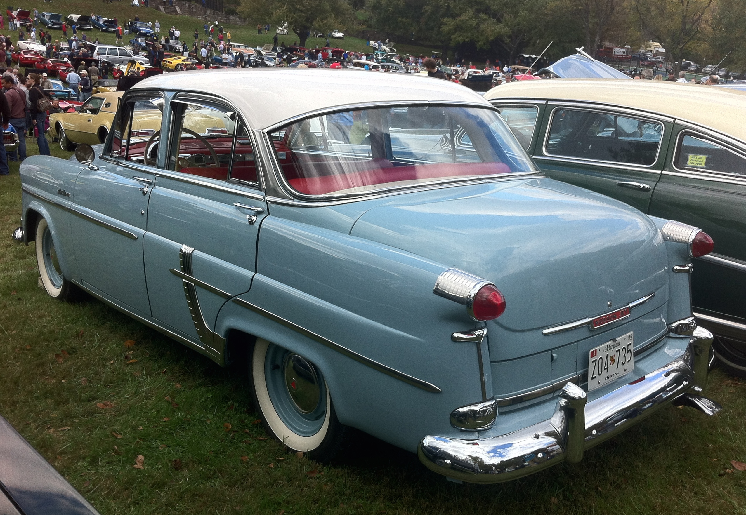 1954 Hudson Jet. The the top-of the line "Liner" model. Picture taken at the 2014 Rockville Antique and Classic Car Show held at the Rockville Civic Center Park in Maryland.